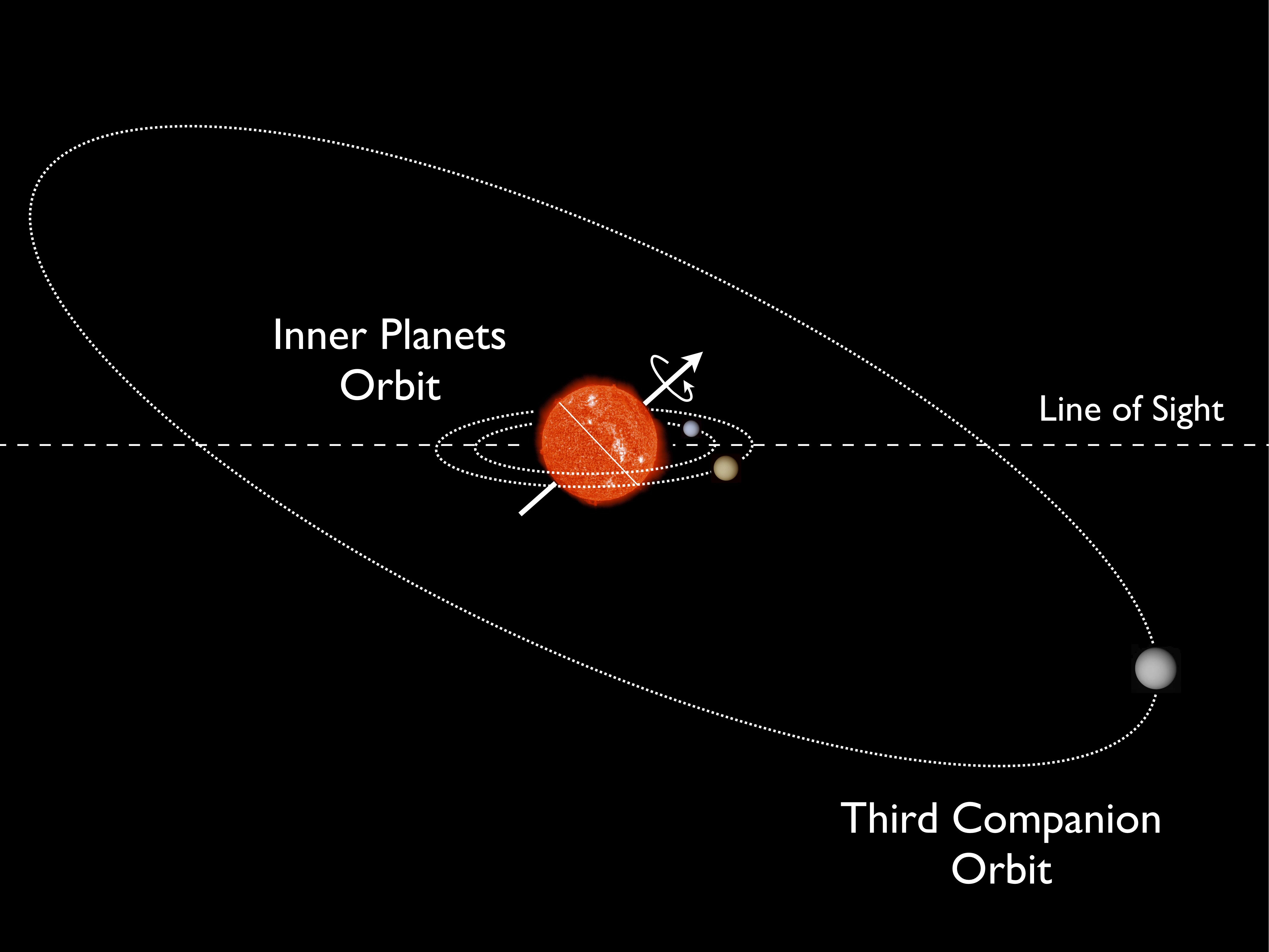 Graphical sketch of the Kepler-56 system. The line of sight from Earth is illustrated by the dashed line, and dotted lines show the orbits of three detected companions in the system. The solid arrow marks the rotation axis of the host star, and the thin solid line marks the host star equator.